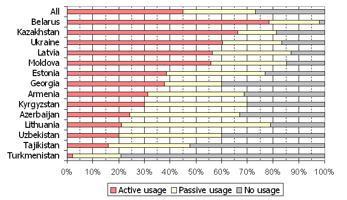 The Russian language in the countries of the ex-USSR. Note: In Russia 99,4% know Russian, the percentage of everyday usage is unknown.